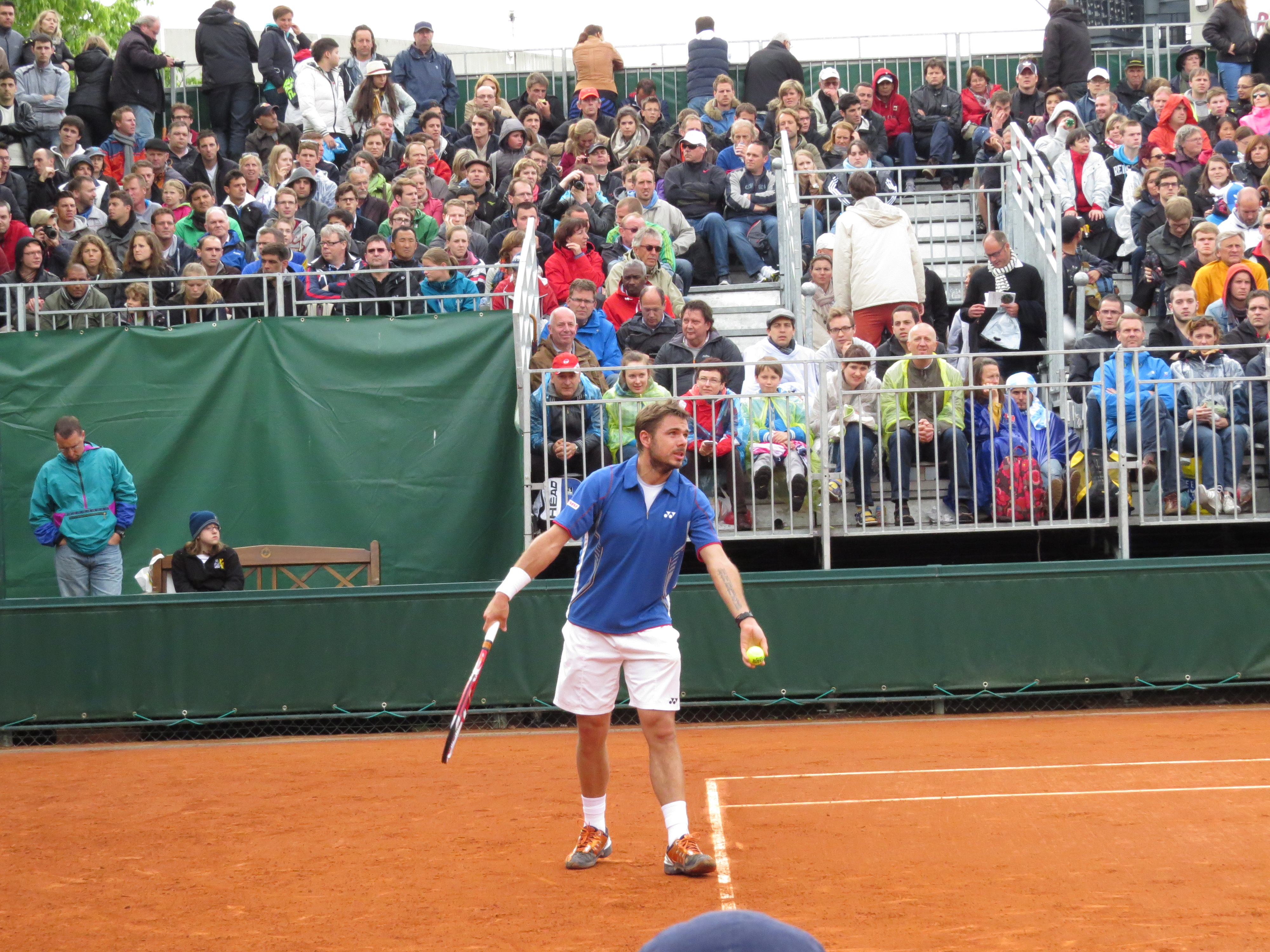 Court n°7 - Second round of the 2013 French Open